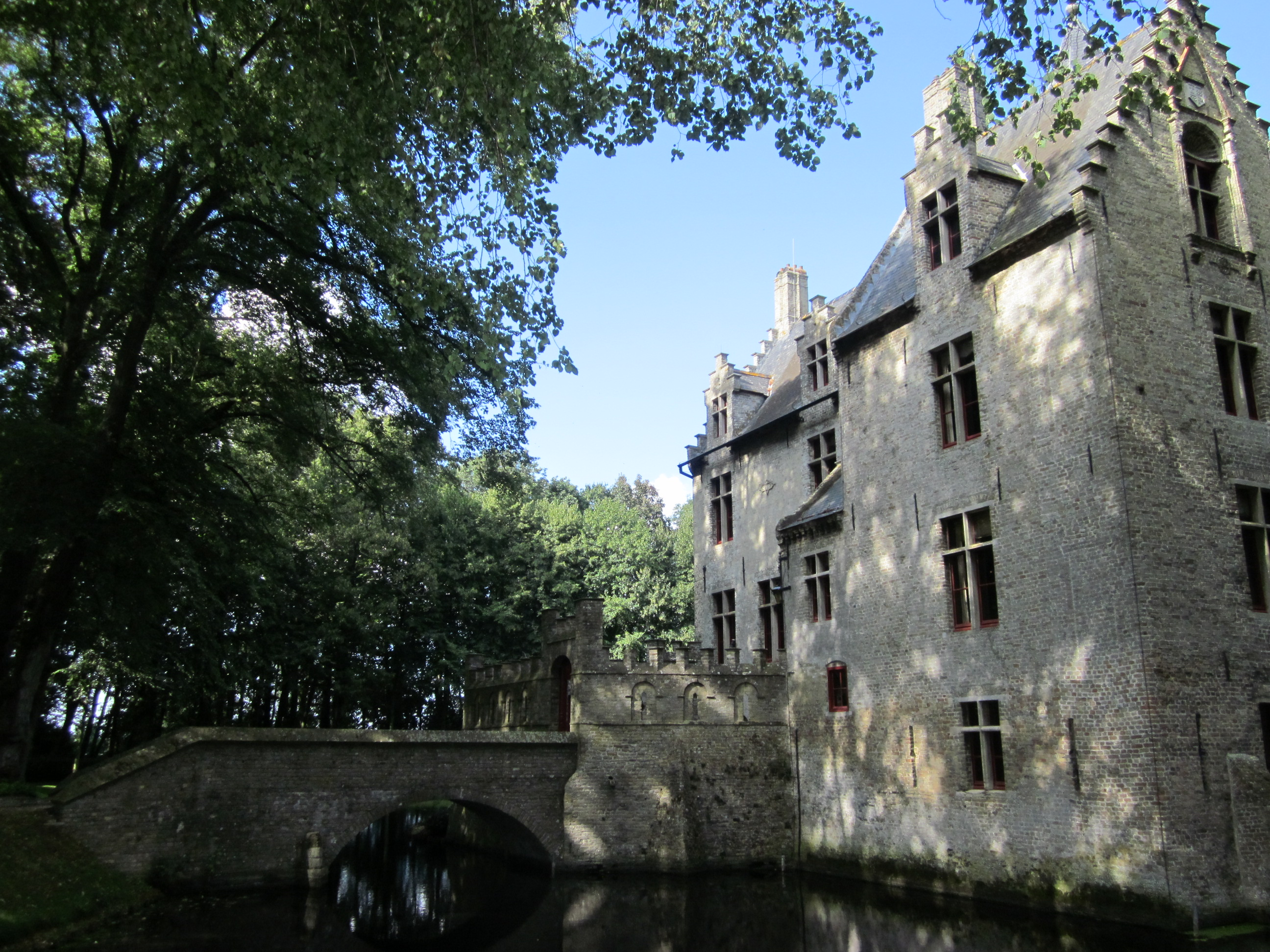 Beauvoorde Castle in Wulveringem, Belgium